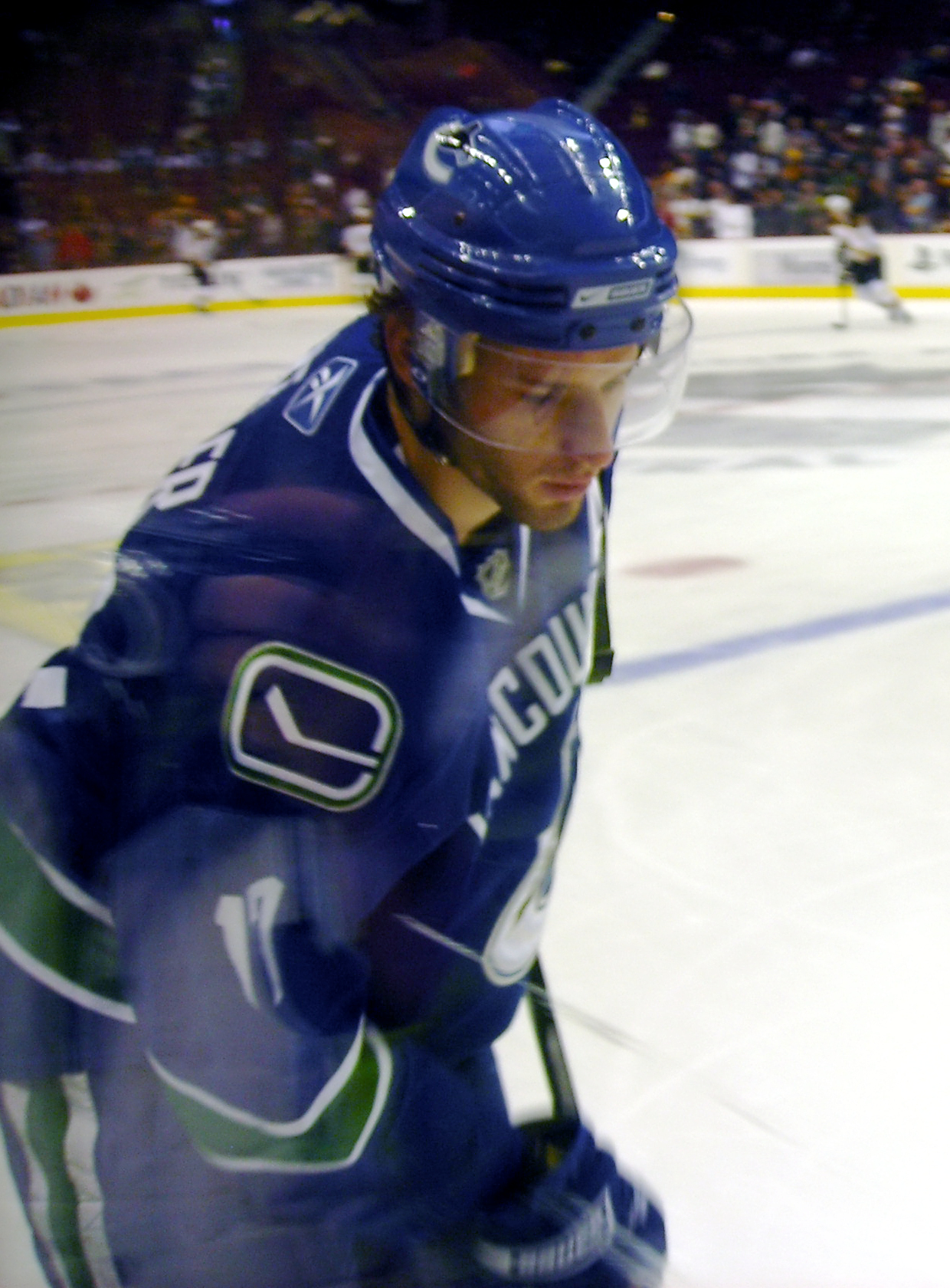 Vancouver Canucks forward Ryan Kesler during the pre-game warmup against the Boston Bruins.